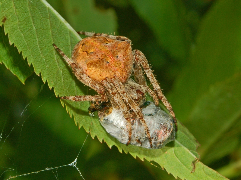 Araneus angulatus from Cerreto (Alessandria, Italy).